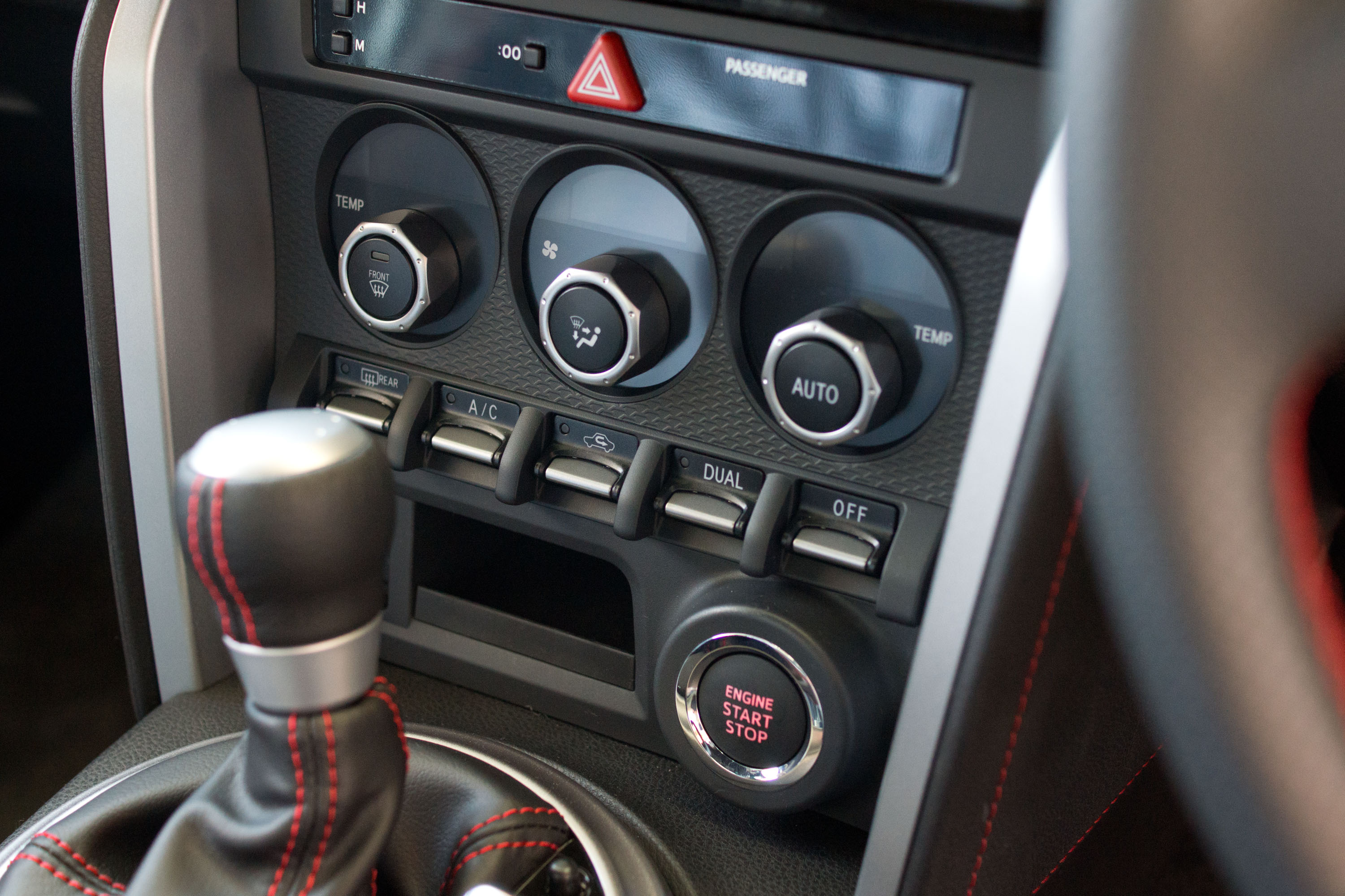 Center console of Toyota 86 (as known as Toyota FT-86, Toyota GT86, Sion FR-S). GT grade.